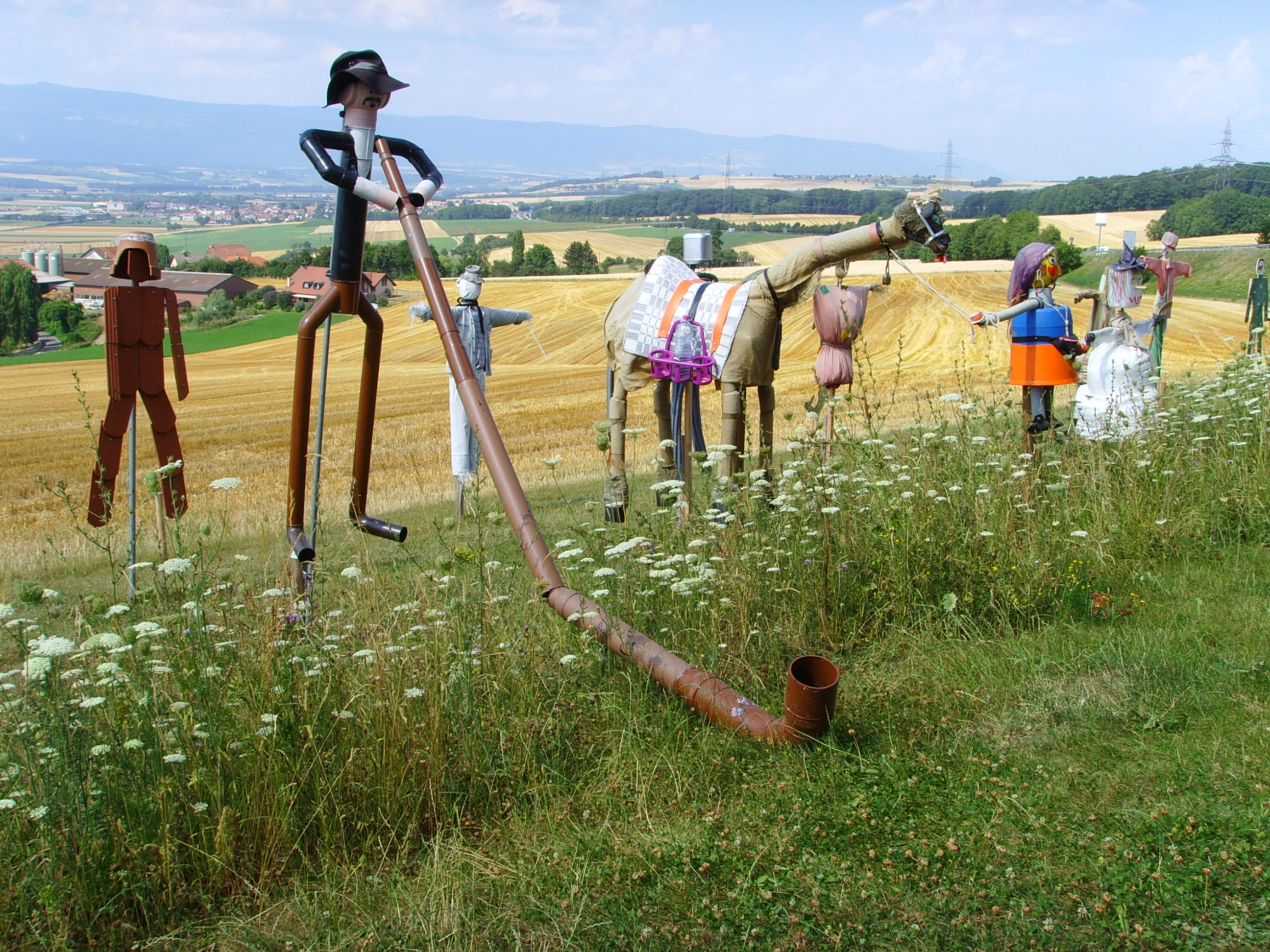 Scarecrows' gathering, near Lausanne, Switzerland (Rastplatz Bavois) this photo was taken by User:Gerbil from de.Wikipedia in July 2006